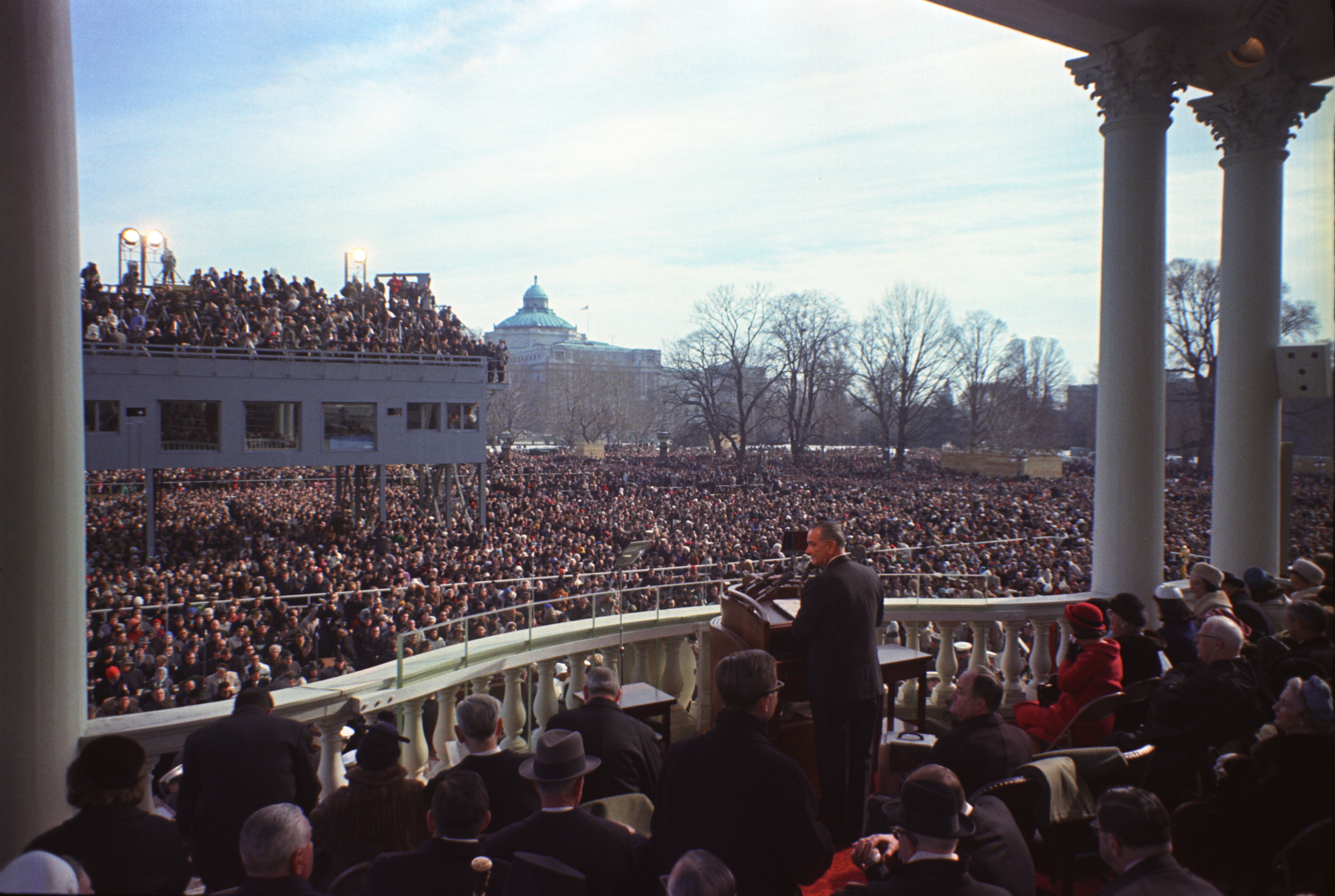 President Lyndon B. Johnson delivers his Innaugural Address